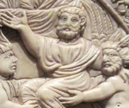 Detail of a panel of an ivory diptych, dated to the year 402, that bears the Symmachus family monogram and depicts the apotheosis of a mortal (probably Q. Aurelius Symmachus himself). He appears here, led into heaven by two genii. Property of the British Museum, temporarily on display at the Art Institute of Chicago. Interlingua: Detalio de un pannello de un diptycho in ebore, datate del anno 402, que porta le cifra del familia de Symmacho e depinge le apotheose de un mortal (probabilemente Q. Aurelio Symmacho ipse). Iste appare ci, conducte in le celos per duo genios. Proprietate del British Museum, temporarimente exposite in le Art Institute of Chicago.